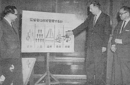 Training of the Ryukyu civil servants by USCAR